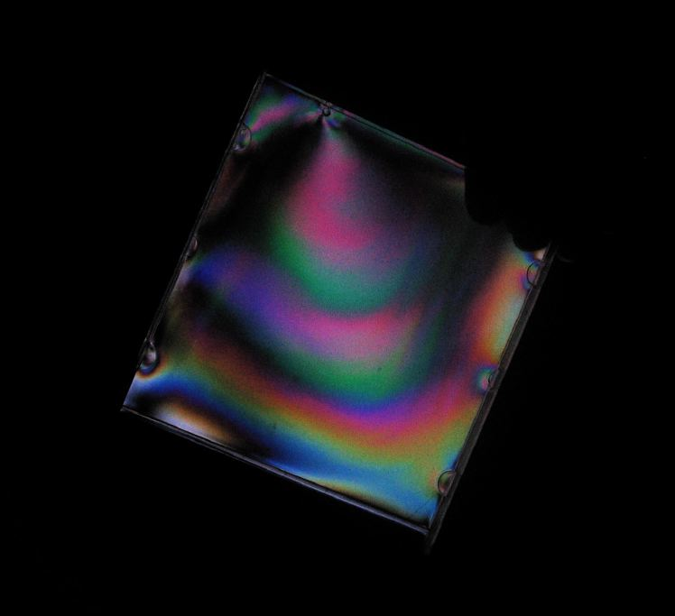 Picture of a CD plastic cover between a polarizer and a flat screen monitor. The flat screen light is polarized, so the birefringence of the plastic layer shows colored fringes after the polarizer. Also called Photoelasticimetry or photoelasticity. Made by me. Used in this article : photoélasticimétrie.